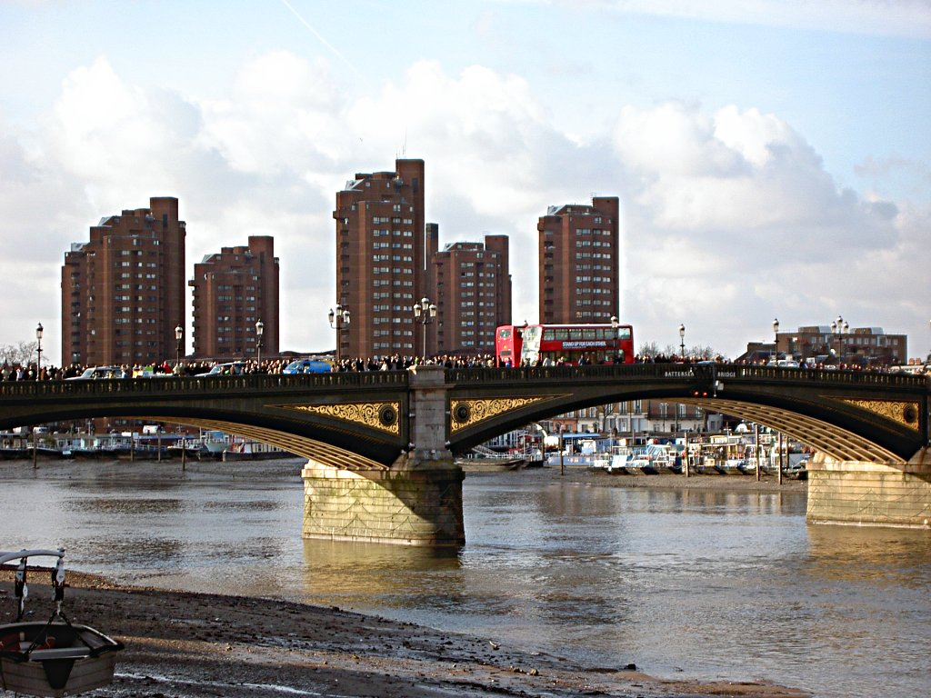 Crowds line the Battersea Bridge watching a whale